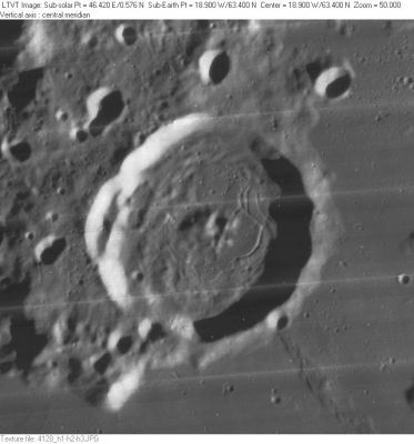 Fontenelle lunar crater - image LO-IV-128H. Arranged across the top are three satellite features: Fontenelle H, R, and P (from left to right).